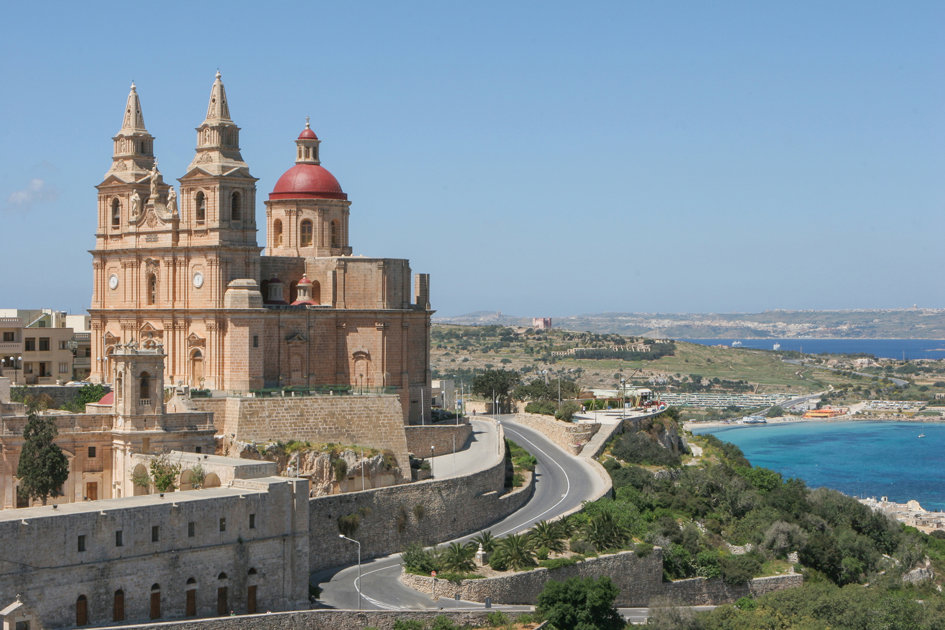 Mellieha view from a local hotel